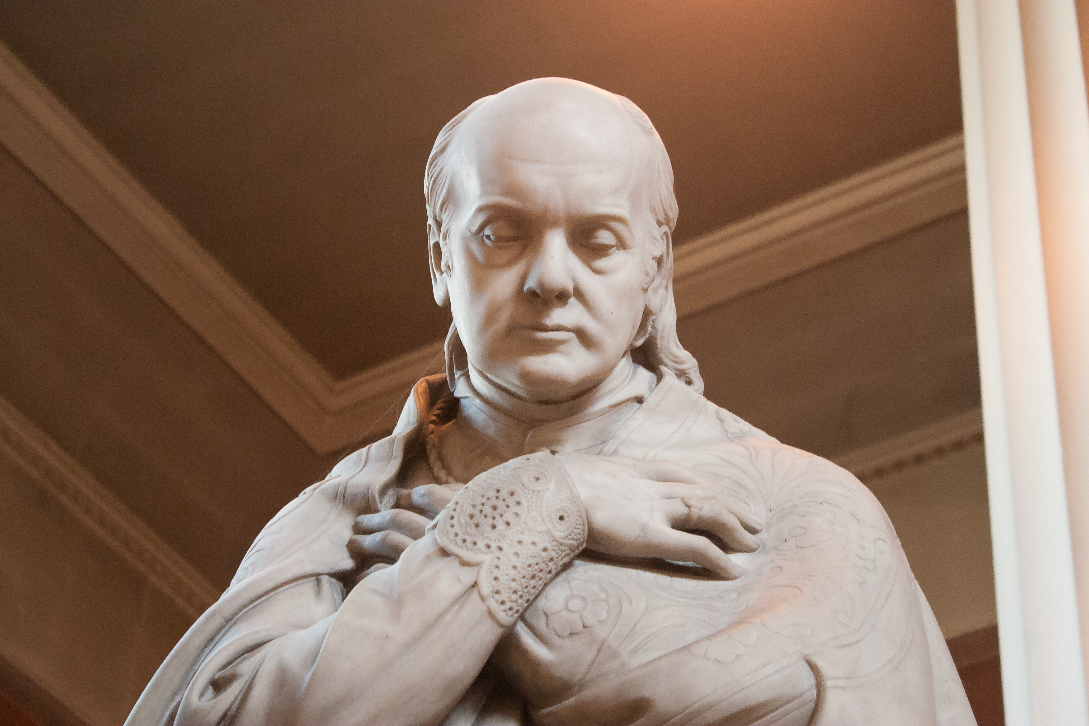 Detail of monument in the north aisle dedicated to Archbishop Daniel Murray, sculpted by Sir Thomas Farrell in 1855.